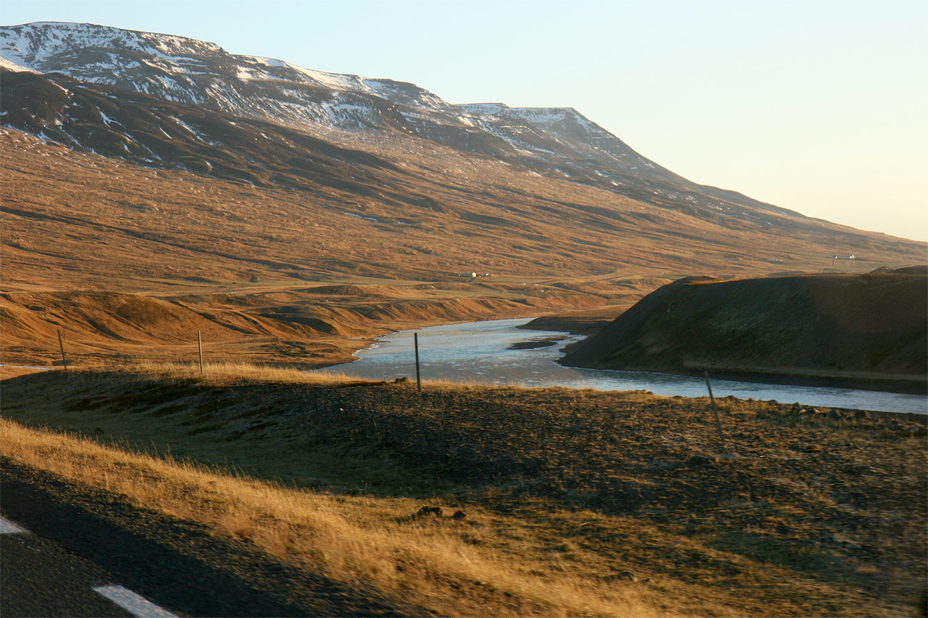 Blanda river, flowing beneath Langadalsfjall, November 21 13:30 Iceland, November 2007 Photo by me user debivort (or friend, with permission given to upload and license freely).